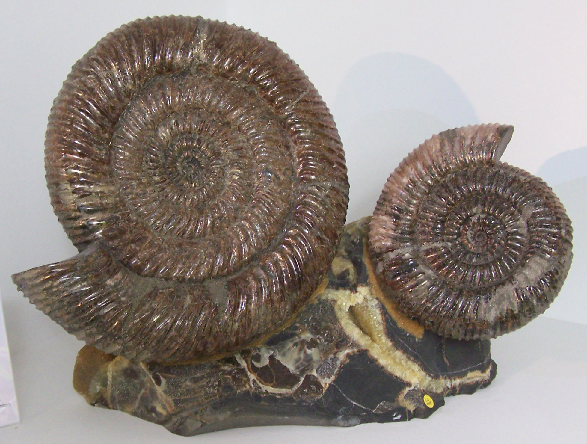 Two fossil ammonites of the species Speetoniceras versicolor (Simbirskites (Speetoniceras) versicolor?) . Hauterivian (Lower Cretaceous, about 125 million years old) of Shilovka, Vologda Oblast, European Russia. Sample is about 50 cm large. Collection of the Sauriermuseum Aathal, Aathal, Switzerland.